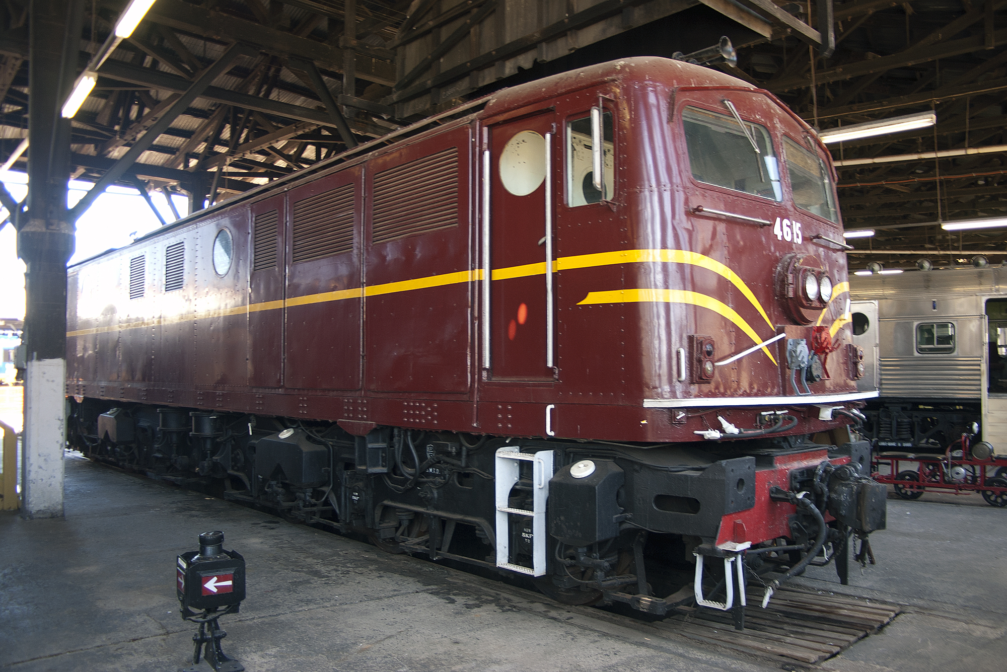 4615 locomotive at the Junee Roundhouse Museum